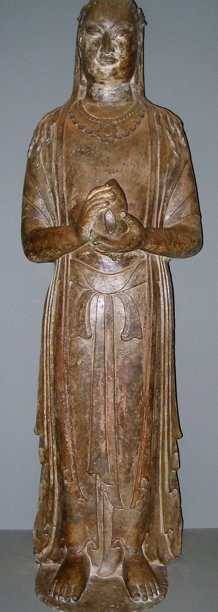 This limestone statue of a Boddhisattva was created in the Northern Qi Dynasty of northern China. It was probably created in the Henan Province around the year 570. It's housed in the Arthur M. Sackler Gallery in the Smithsonian, Washington, D.C.